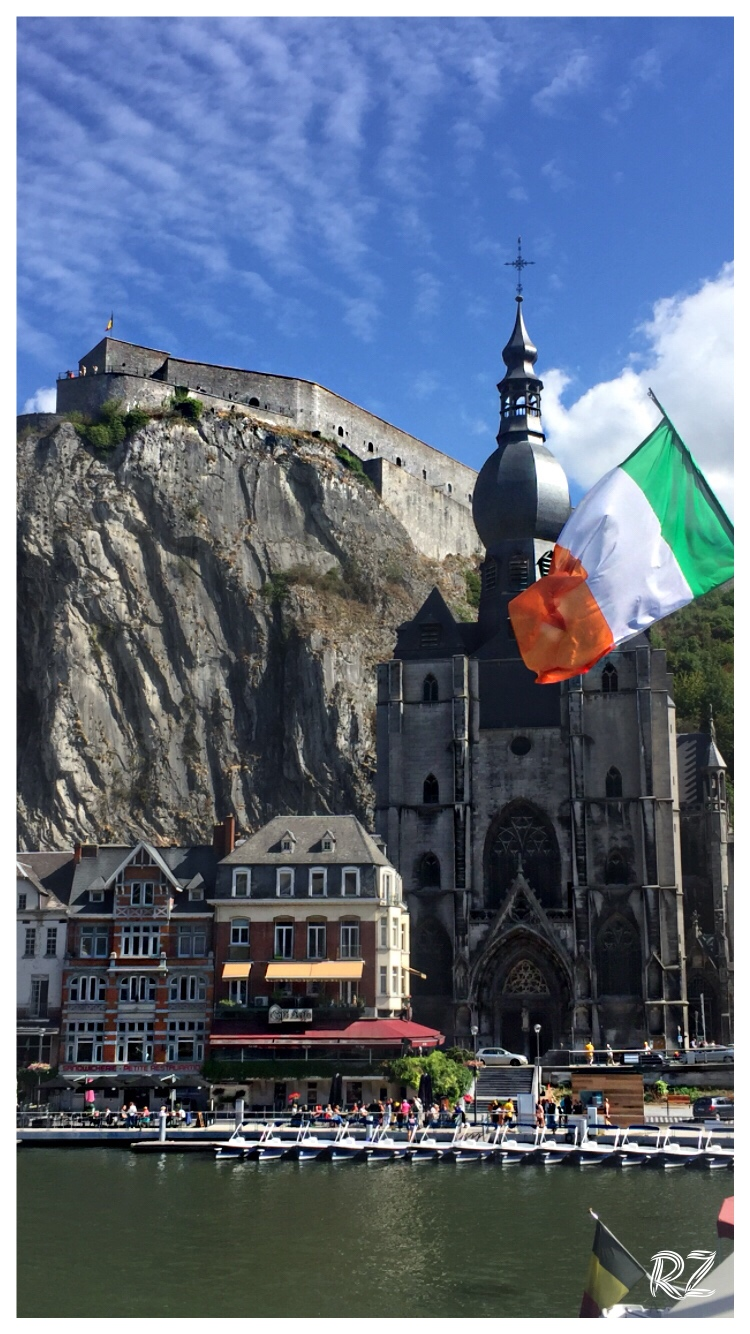 Illustration of the citadel and the Collegiate Church Notre Dame seen from Charles de Gaulle bridge in Dinant